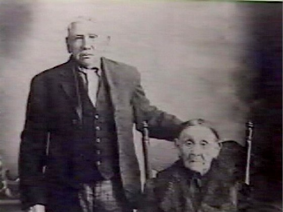 Amable "White Duck" LeBlanc and his wife Marie-Louise Cimon, founders of Lac-Simon in Quebec, Canada.